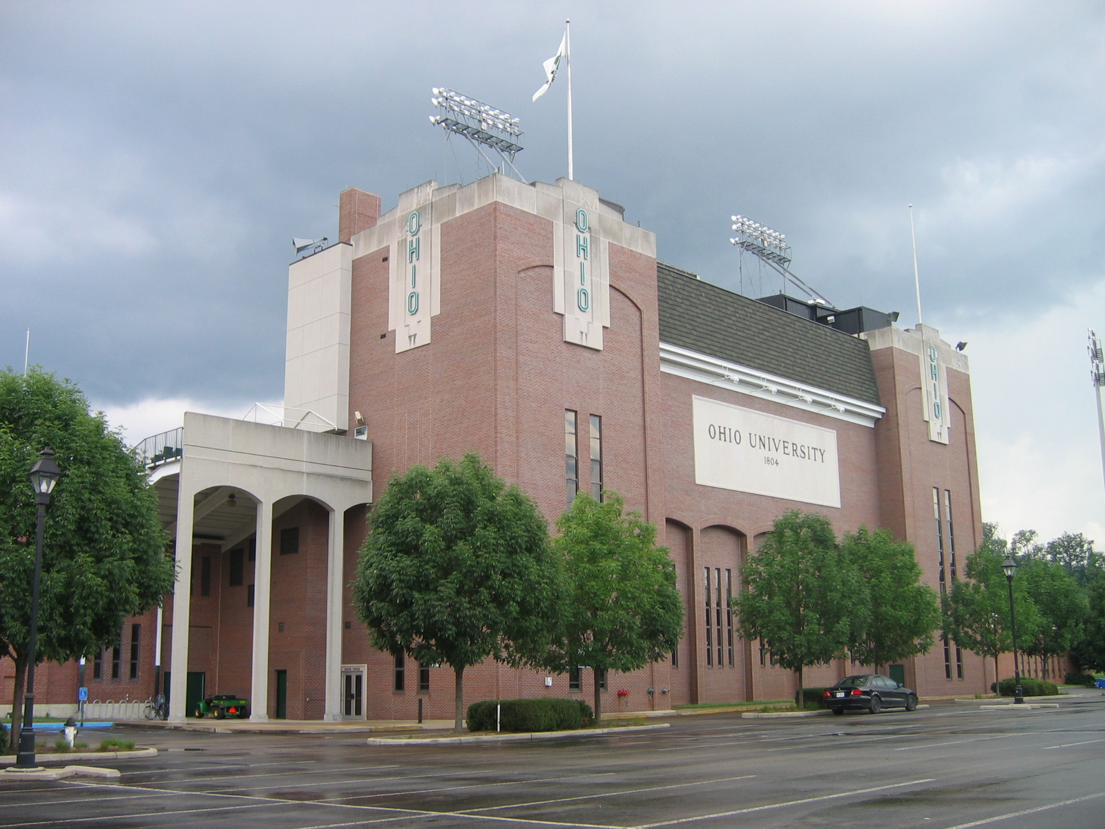 Football & Basketball Facilities Ohio U Football Stadium